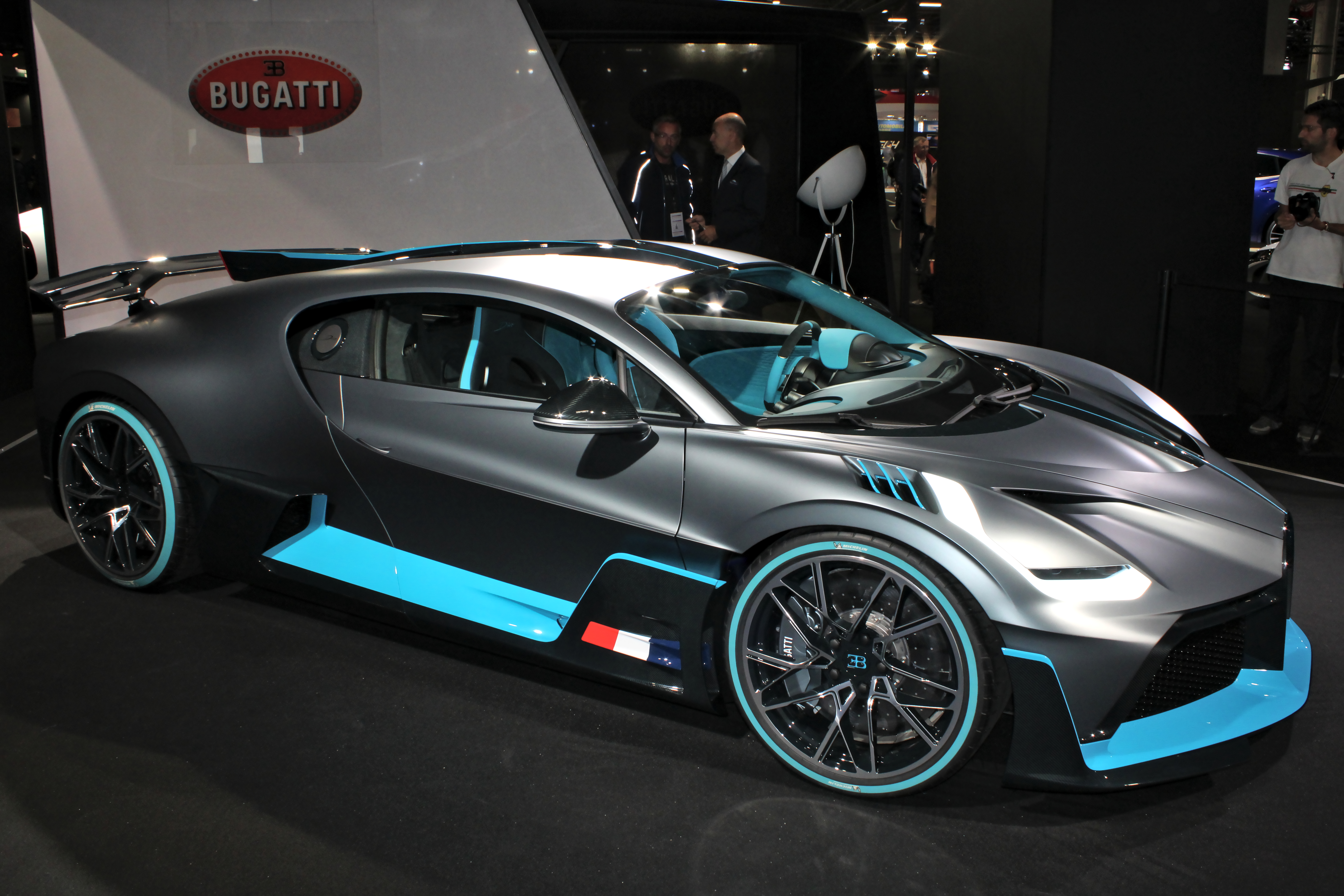 Bugatti Divo at Paris Motor Show 2018